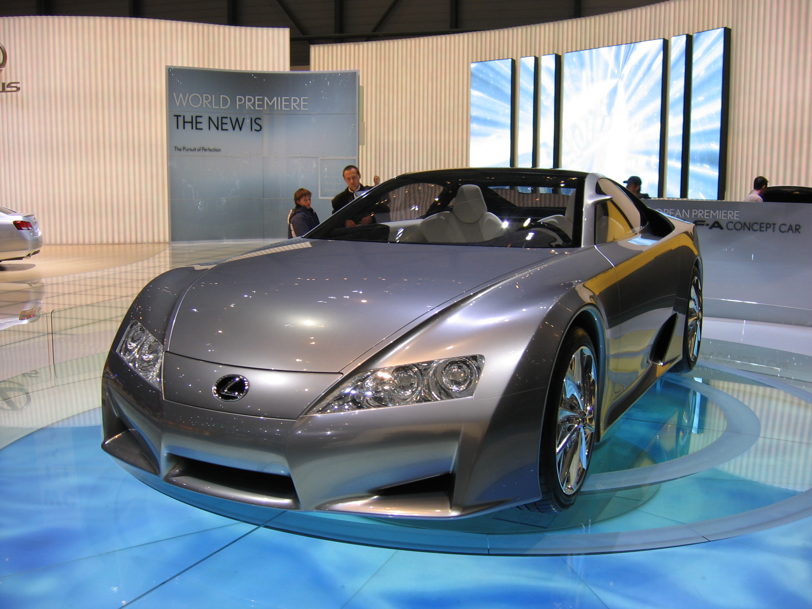 Geneva Motor Show 2005